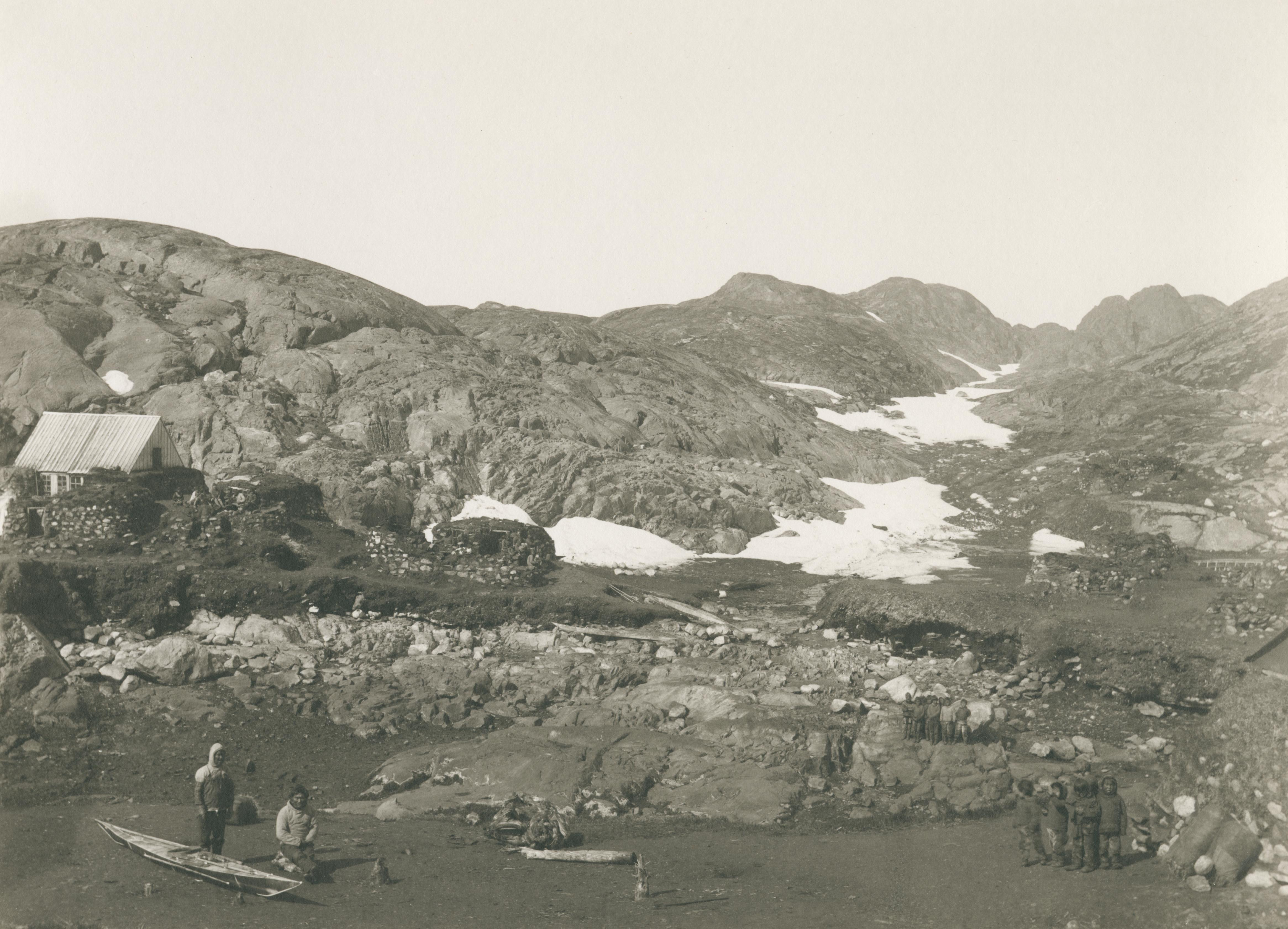 Kangeq at the esturay of the bay of Nuuk.